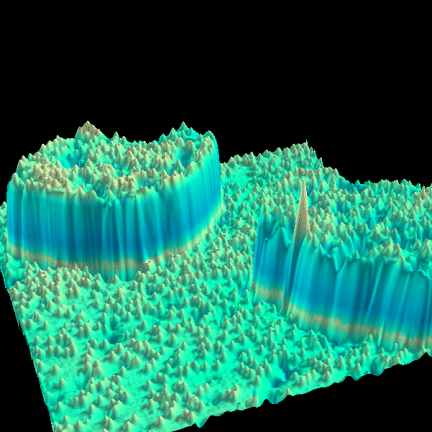 Image of substitutional Cr impurities (small bumps) in the Fe(001) surfaces.